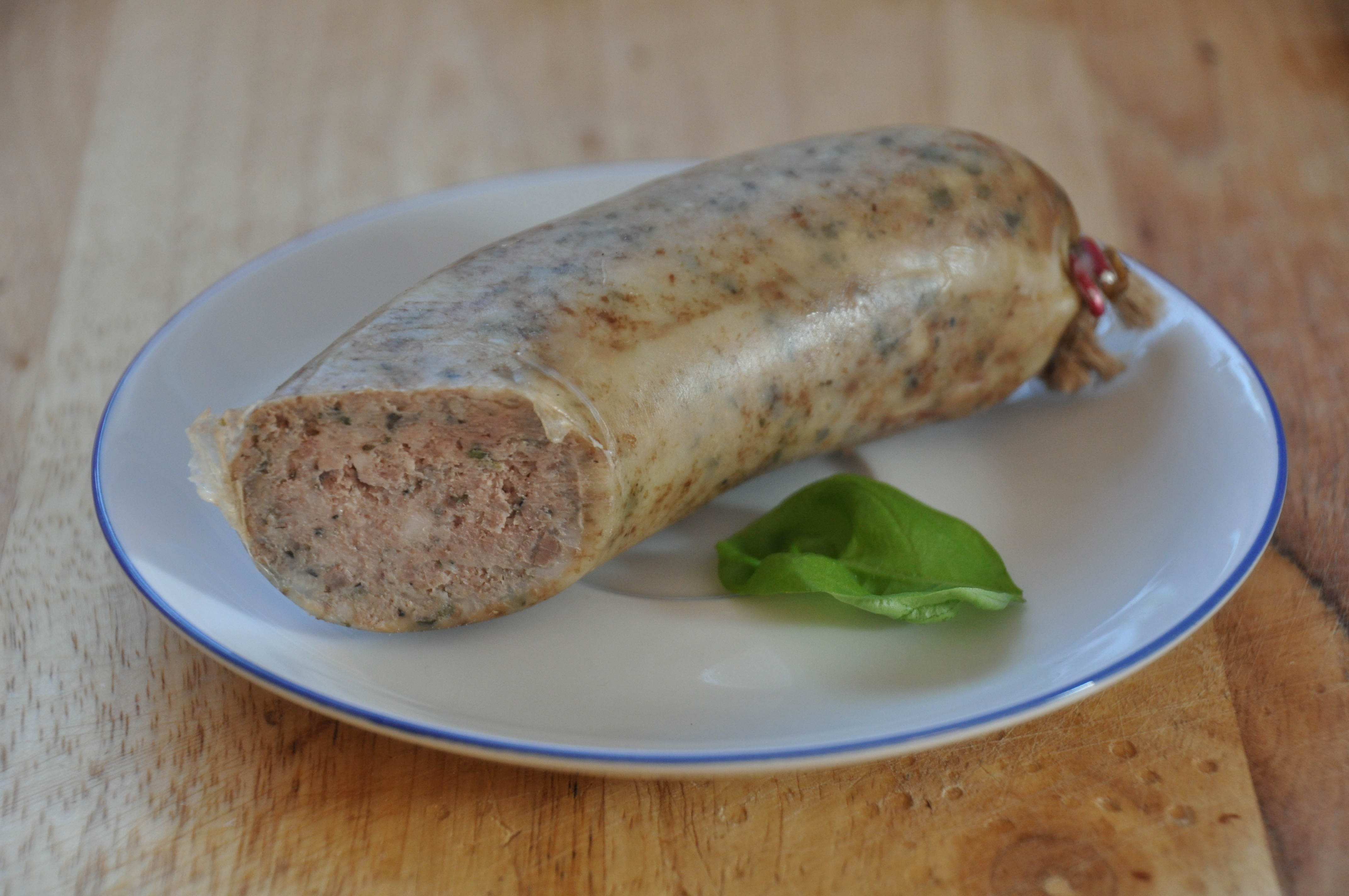 Thuringian liverwurst, dissected. German regional speciality.